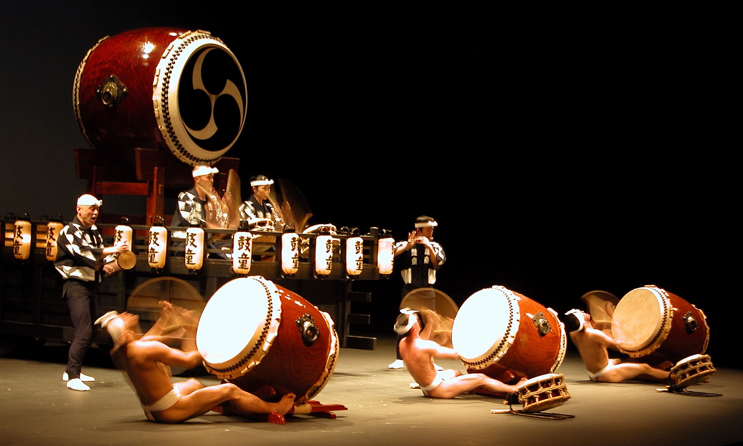 Photo of the group Kodo performing the taiko piece titled "Yatai-bayashi".